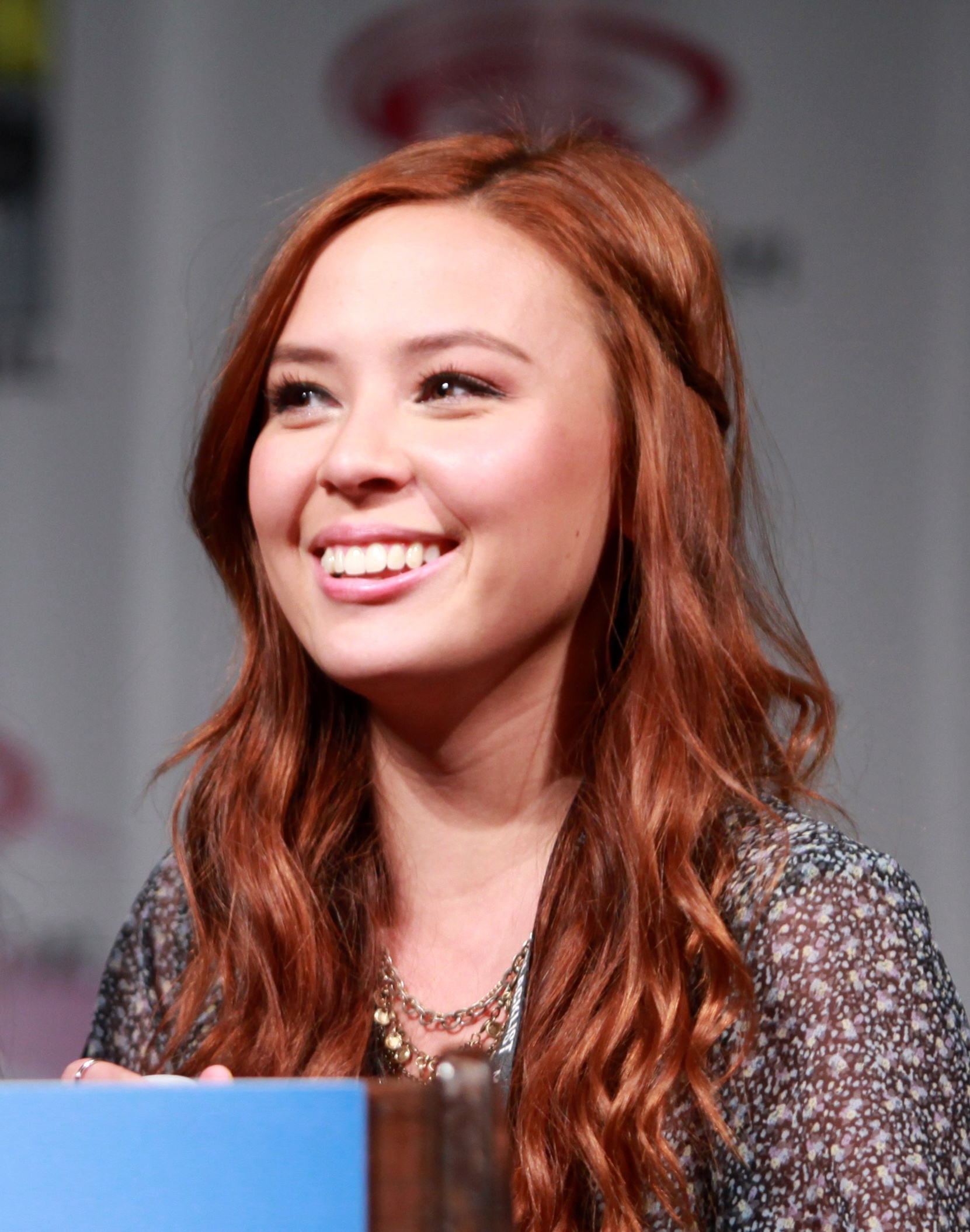 Malese Jow speaking at the 2014 WonderCon, for "Star-Crossed", at the Anaheim Convention Center in Anaheim, California.